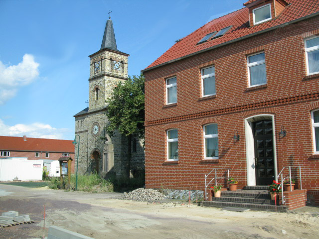 Flower pots on a step in Gerwische